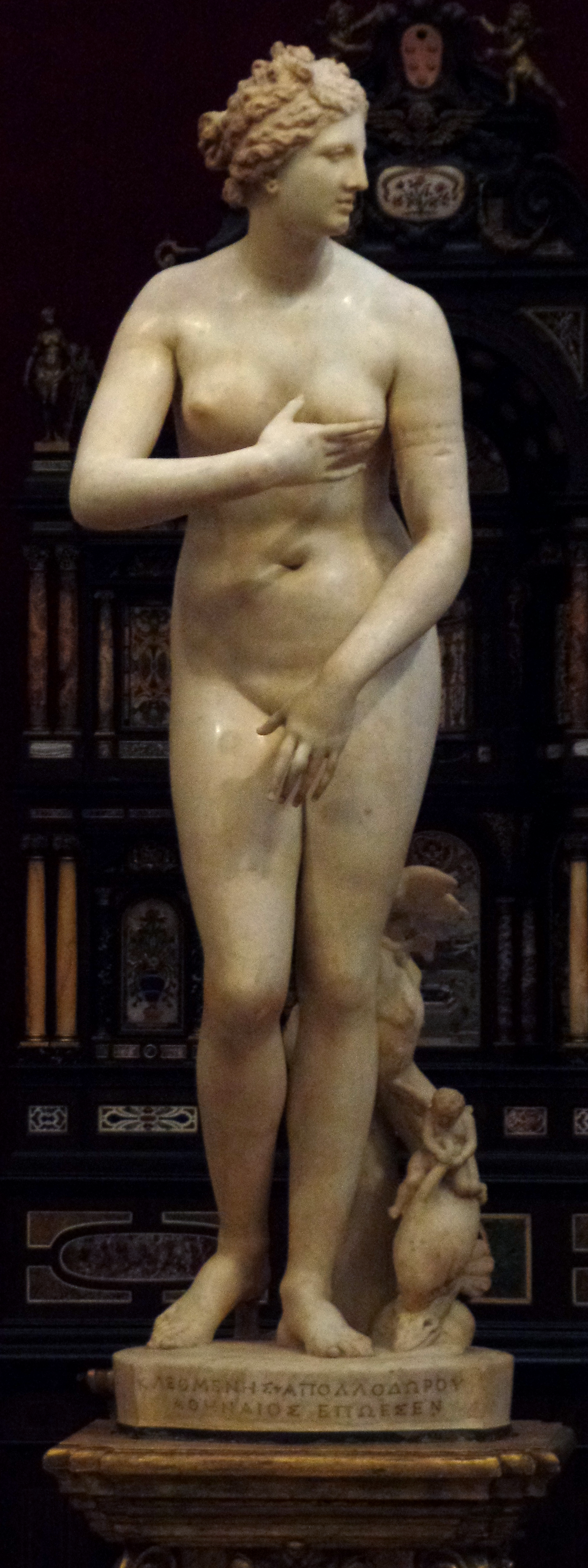 Venus de' Medici, Galleria degli Uffizi, Florence, Italy.